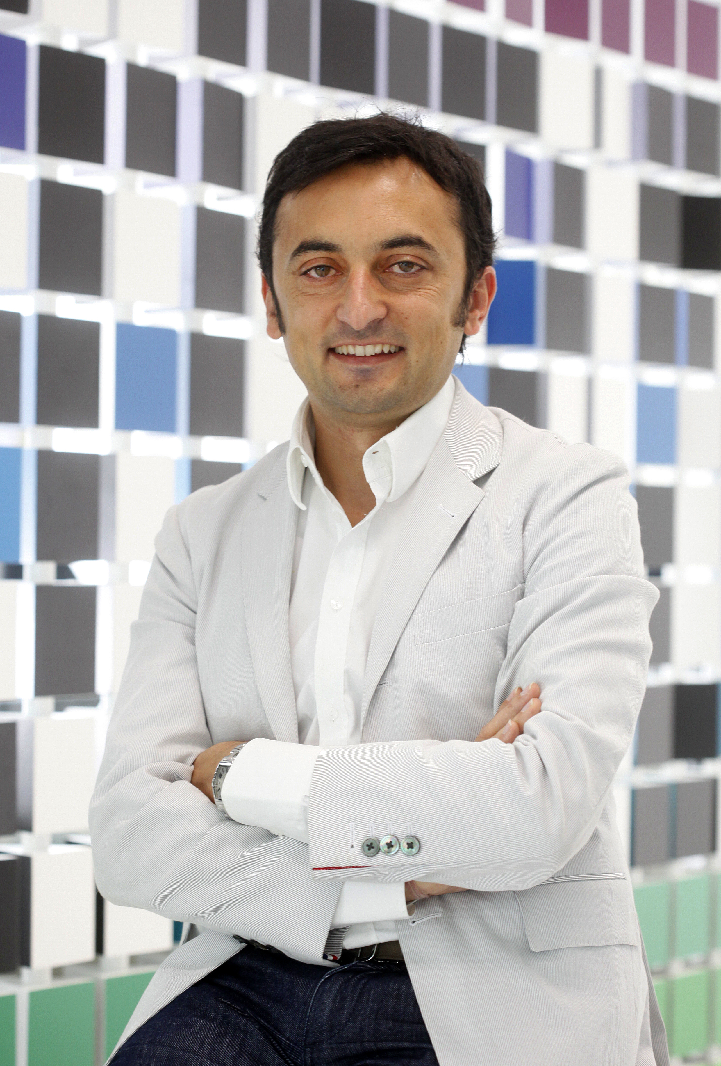 pablo rodriguez at Telefonica